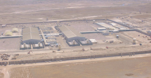 Aerial view of the new_Bagram Theatre Internment Facility.